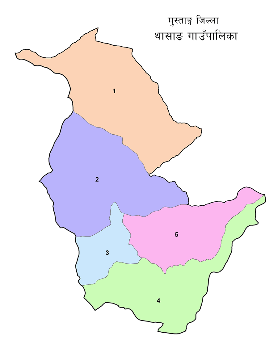 Thasang नेपाली: थासाङ गाउँपालिकाको वडा विभाजन